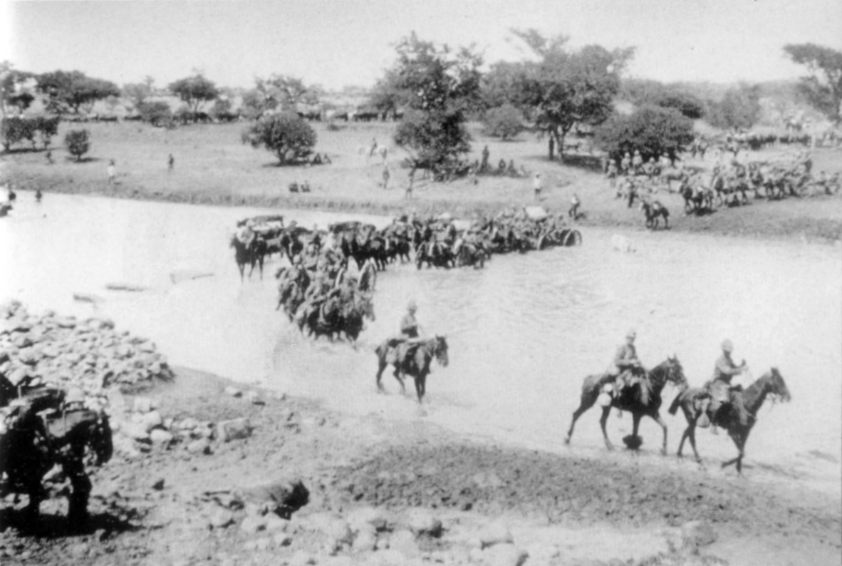 Photograph of British forces crossing the Tugela River in South Africa during the Second Boer War